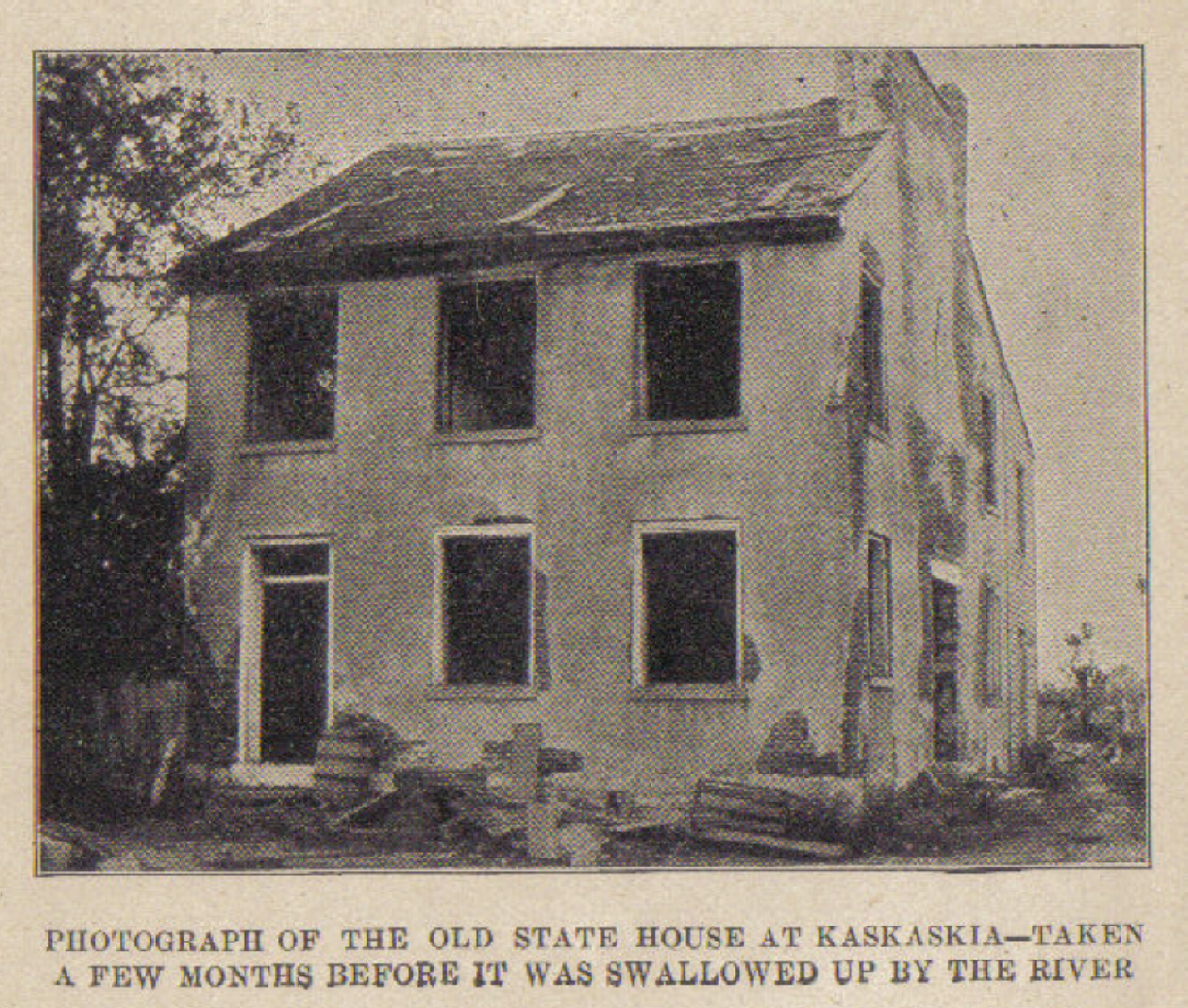 A two-story building that served as the first state capitol of Illinois Caption: Photograph of the old state house at Kaskaskia — taken a few months before it was swallowed up by the river.